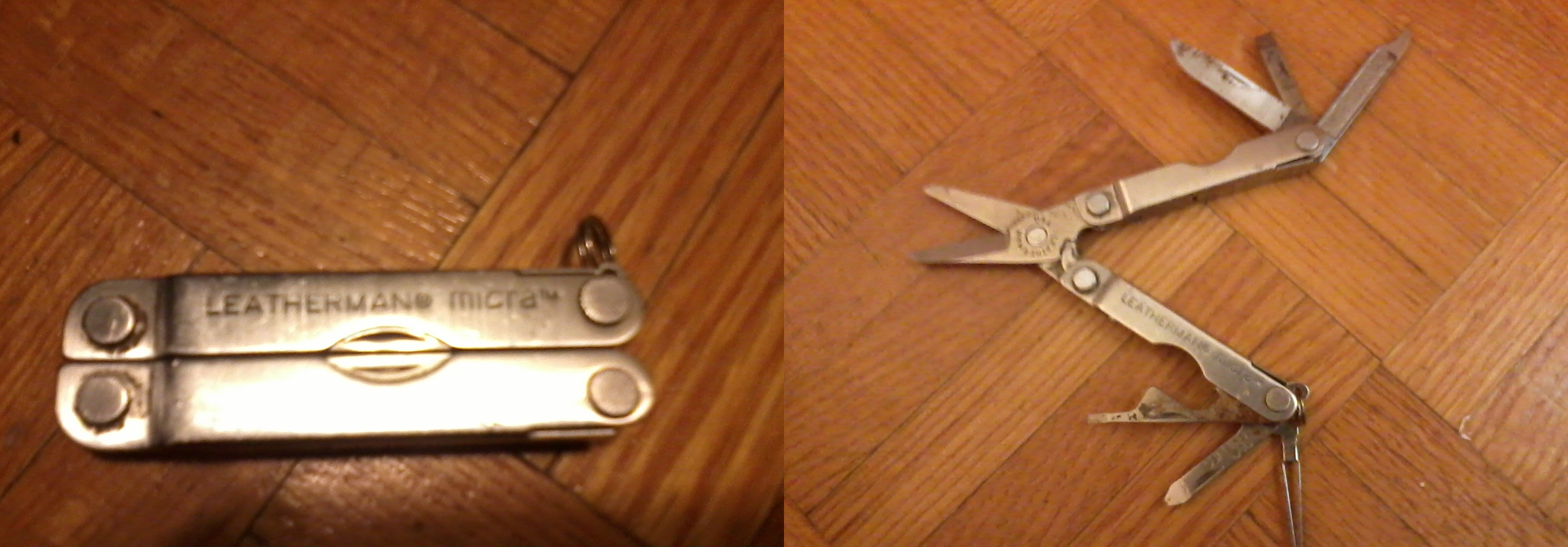 A Leatherman Micra keychain multitool, both closed and open.